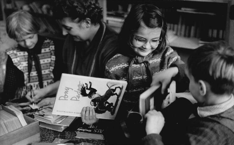 additional notes: the book held by the child is Pony Pedro by Erwin Strittmatter